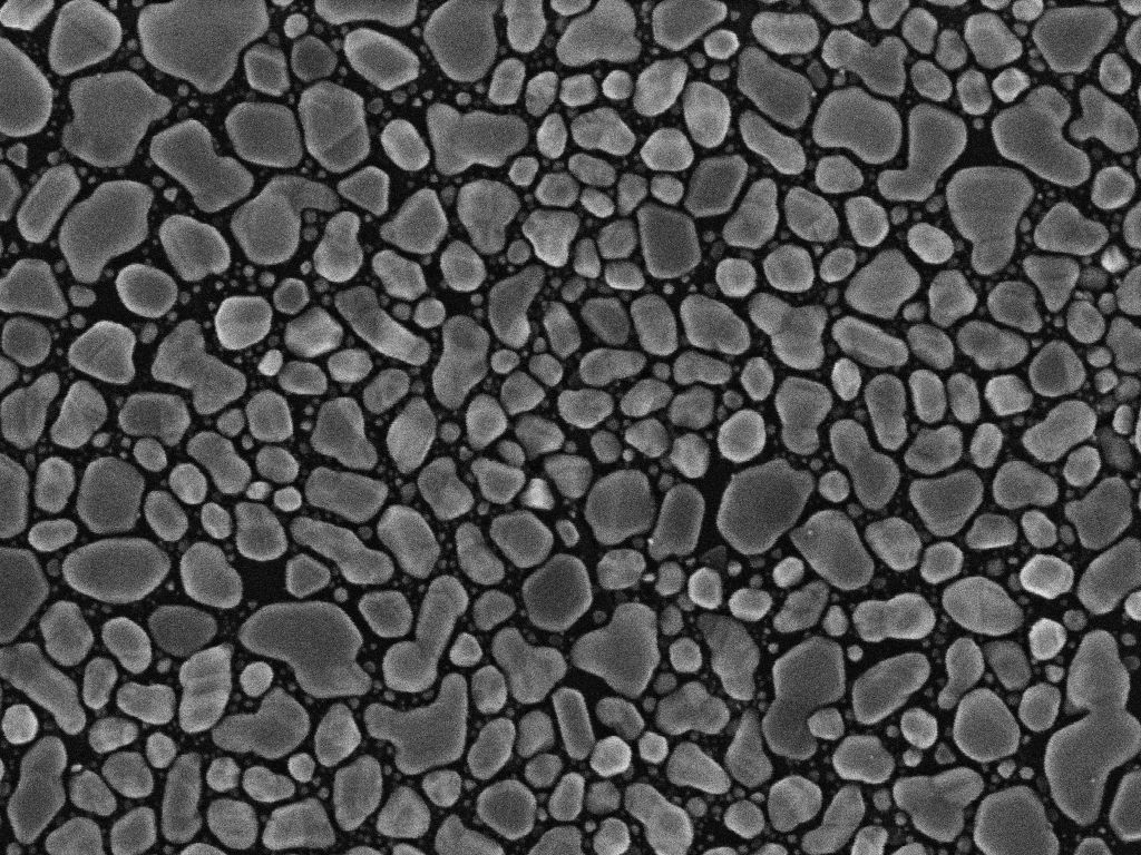 Gold on carbon speciment